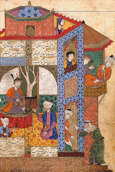 Unknown. Selselat al-ḏahab («The Chain of Gold») Jami. Iran